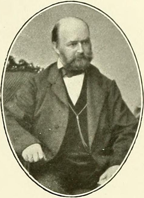 Portrait of the German botanist Gustav Wilhelm Koerber (1817-1885)